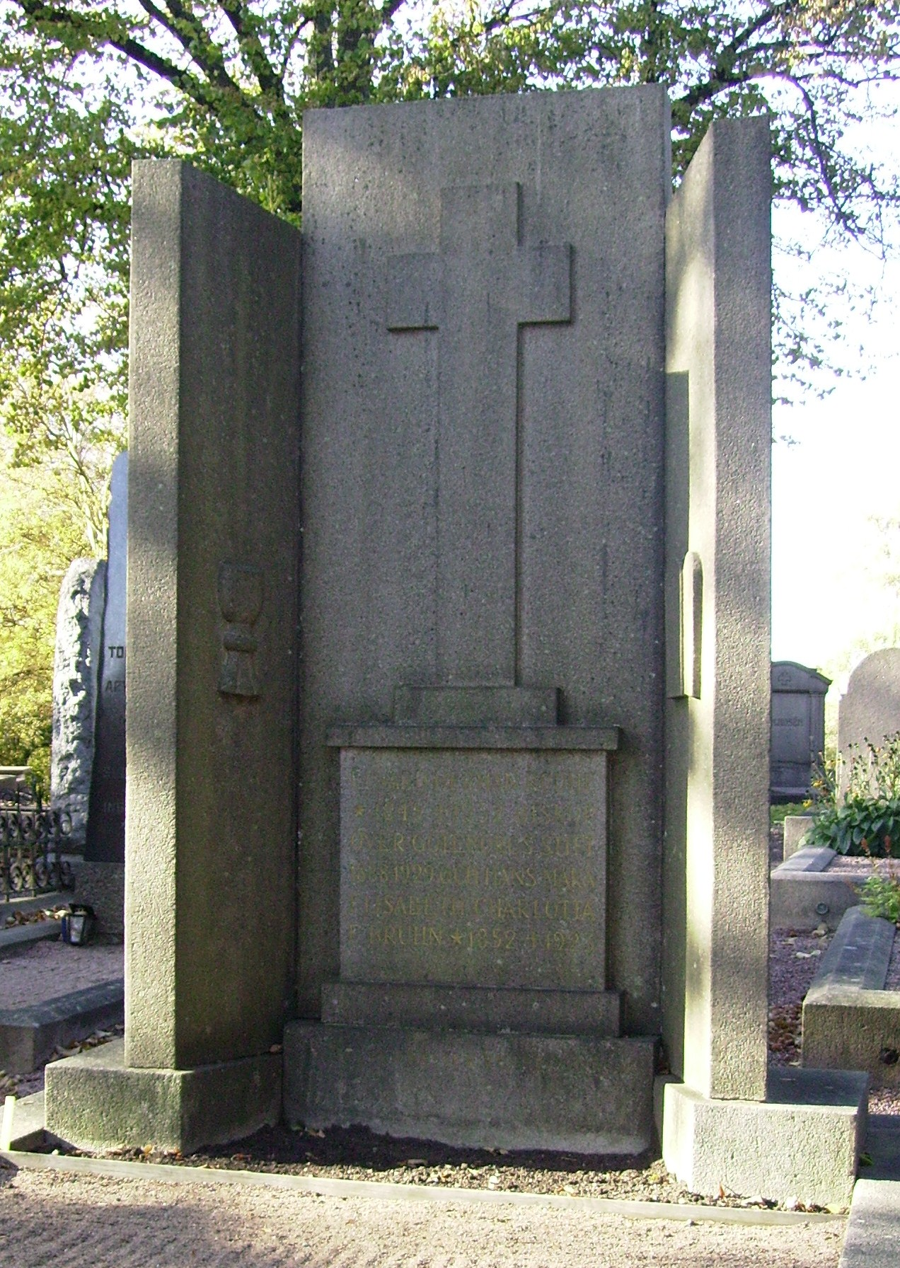 Picture of Edvard Herman Rodhe's grave at Östra kyrkogården in Göteborg